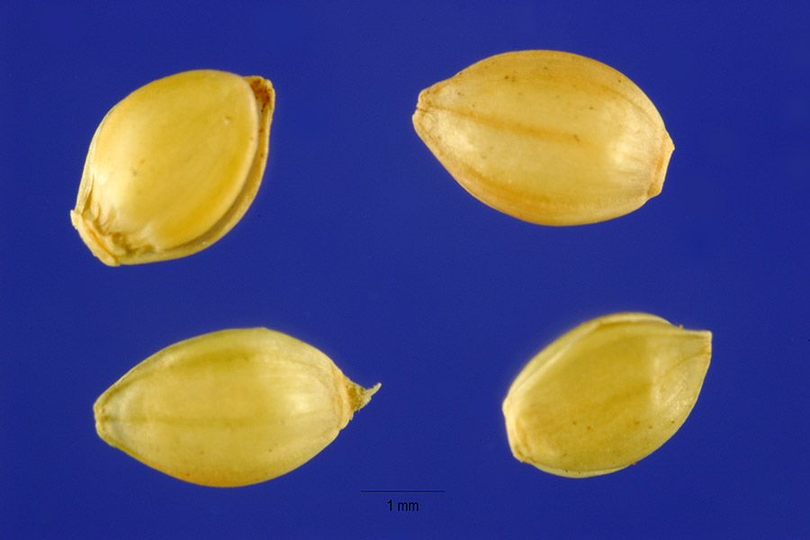 Seeds of Paspalum notatum var. saurae